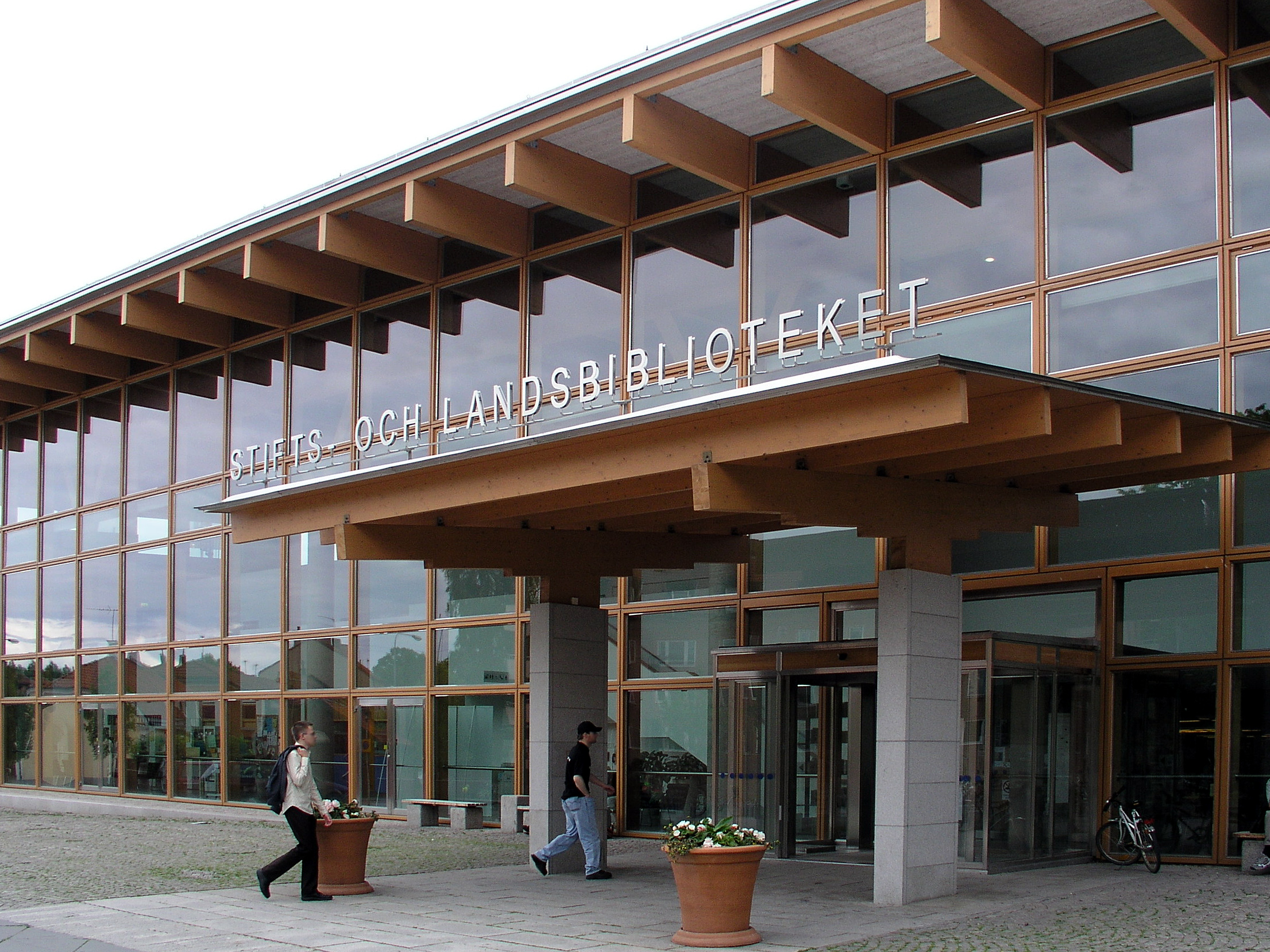 Library in Linköping, Sweden. Entrance. Stifts- och landsbiblioteket is the new building that was built following the 20 September 1996 fire. The new building was inaugerated in February 2000.